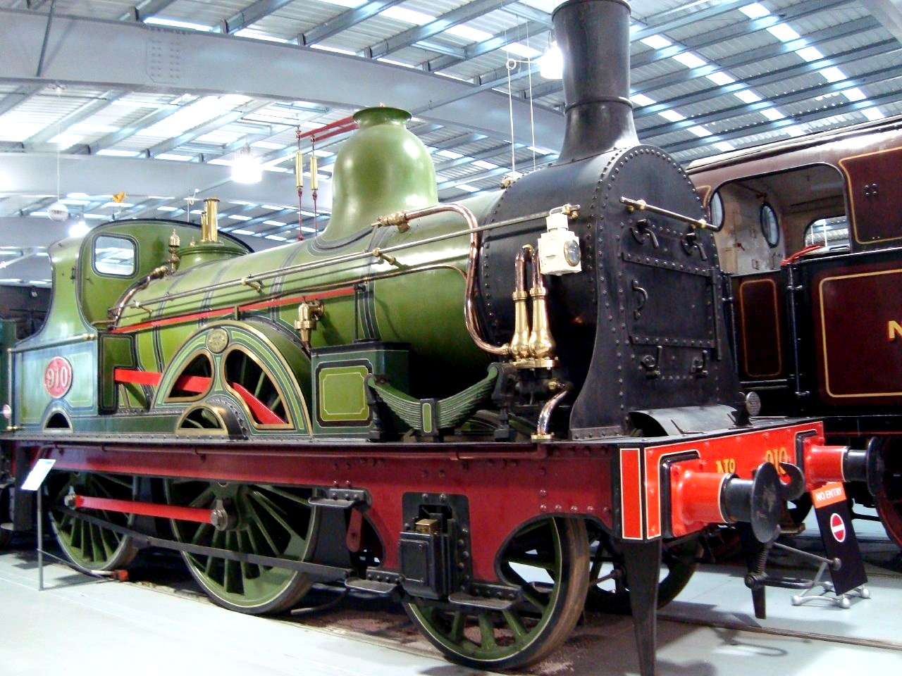 NER 901 Class 2-4-0 locomotive at 'Locomotion', Shildon, Co. Durham.